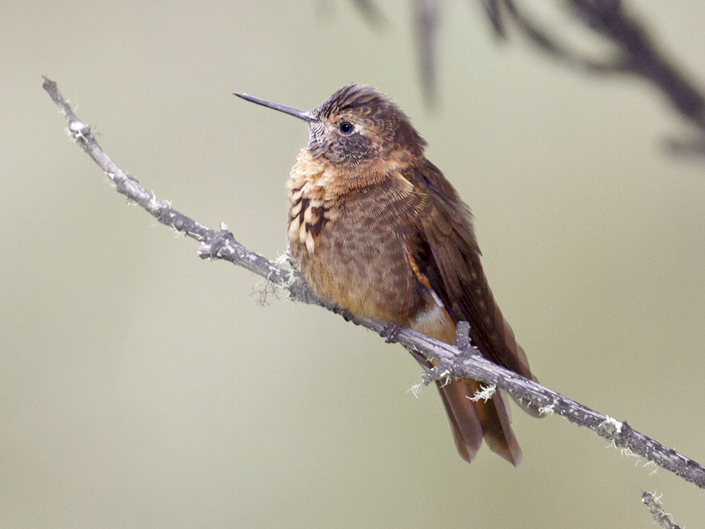 A Shining Sunbeam near the Manu Road, Peru.